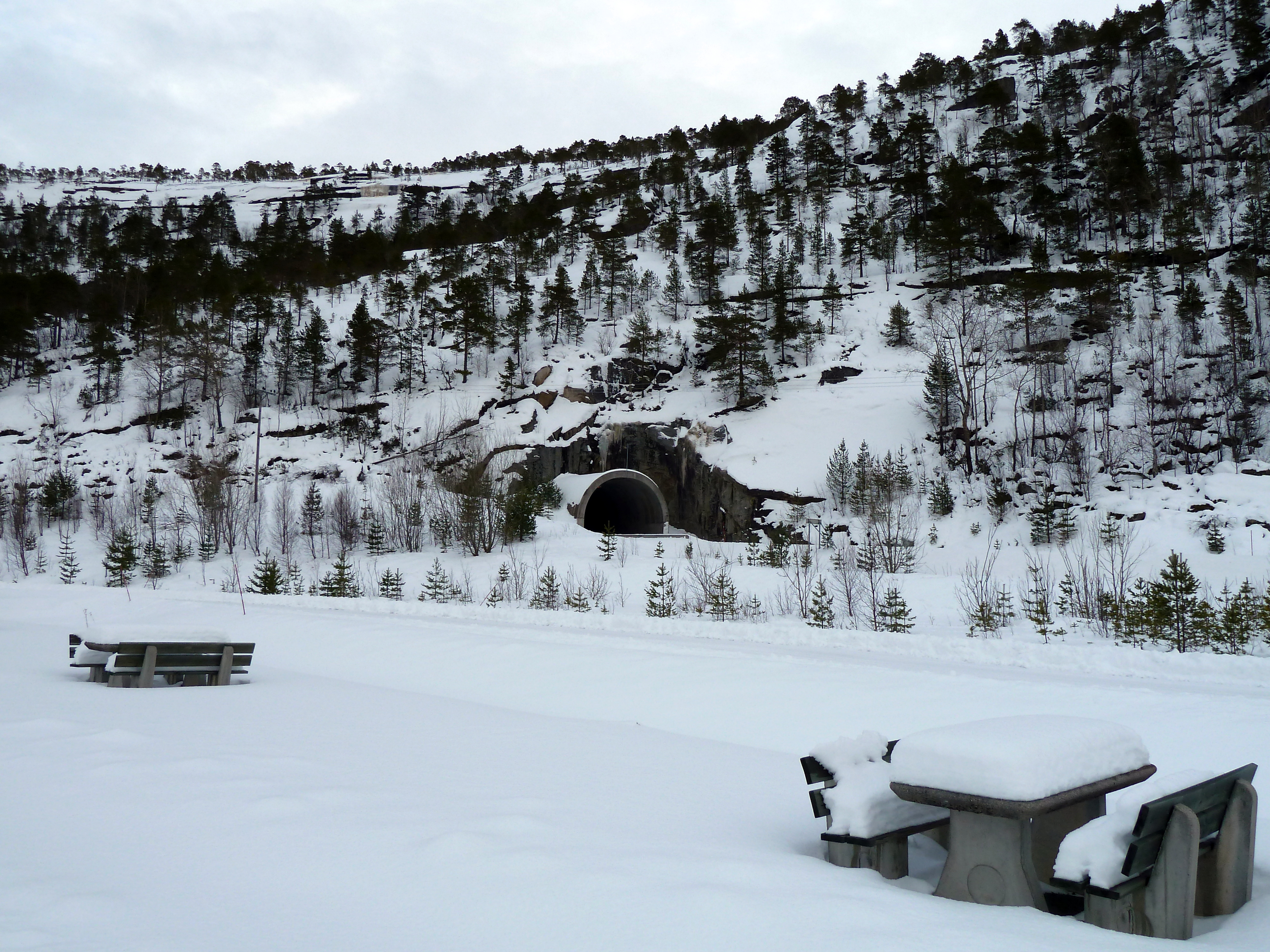 the Tømmerås Tunnel at County Road 827 (Nordland, Norway). South end.